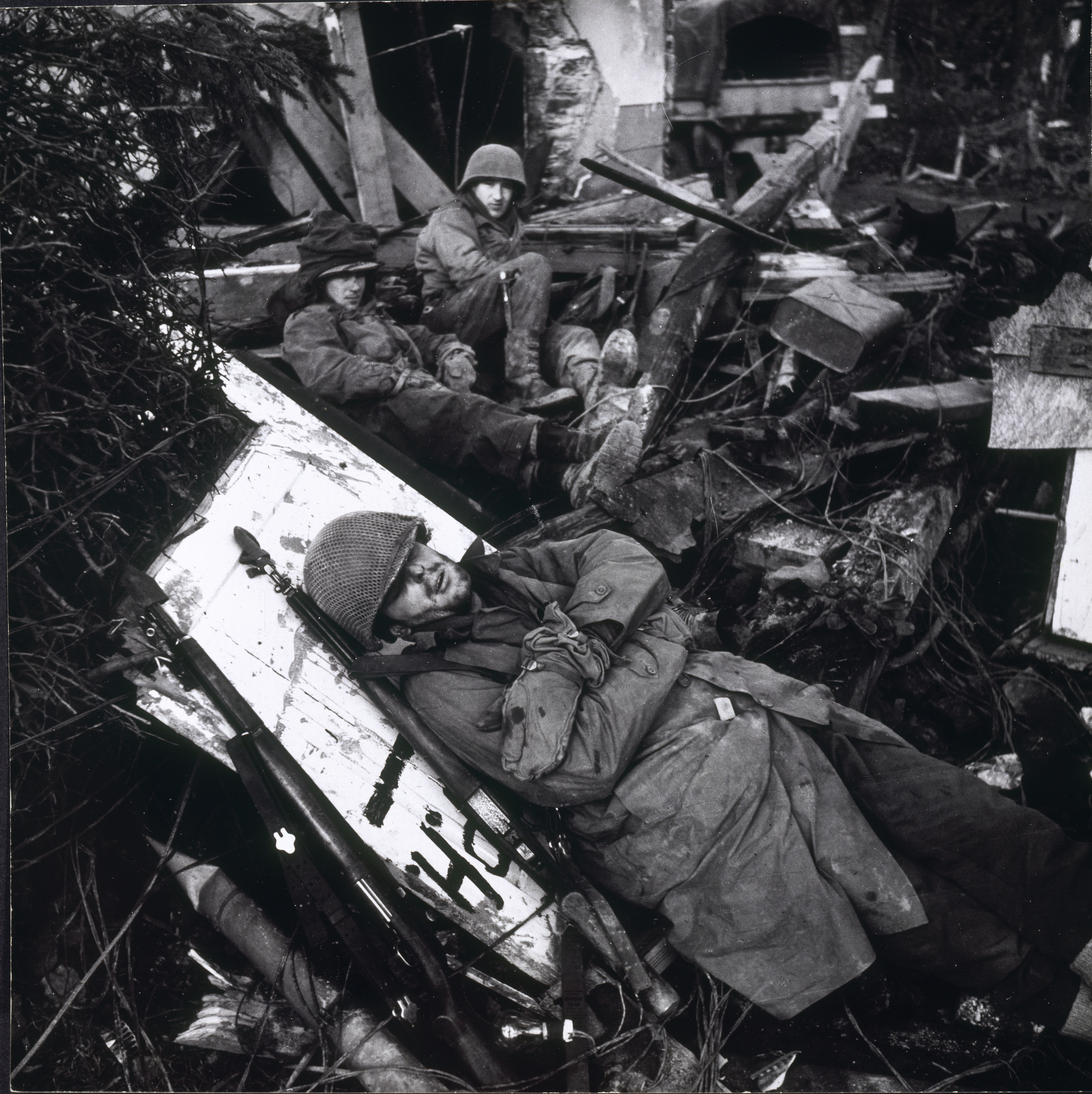 U.S. soldiers resting among ruins of building, with soldier lying on plank in foreground, on the Siegfried Line, Rhine Valley, German Front